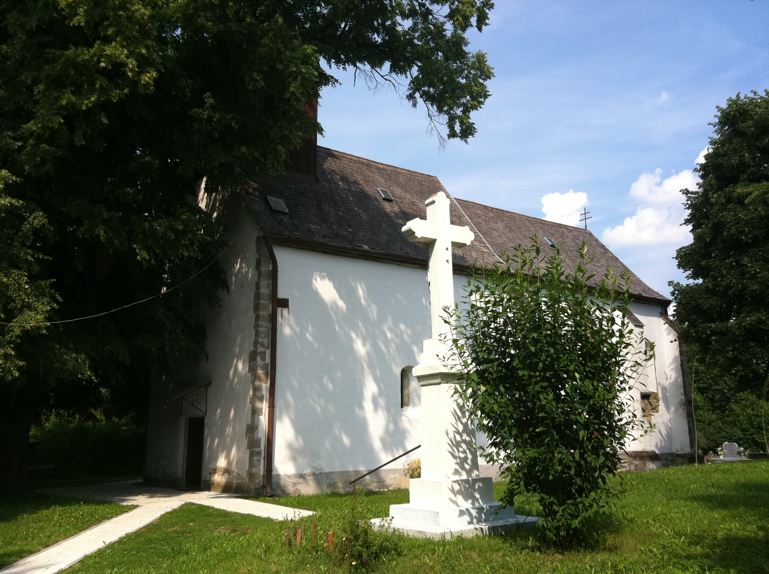 Egyházasgerge, Hungary. "Immaculate conception" Roman Catholic church.